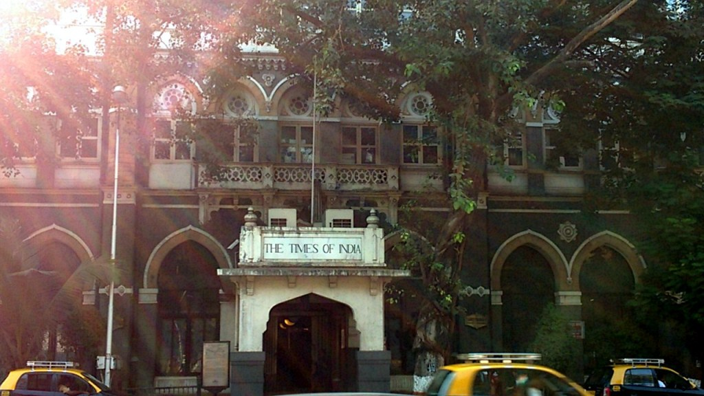 TOI's first office is opposite the Chhatrapati Shivaji Terminus in Mumbai where it was founded.